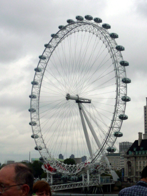 Famous spectacle in England - London eye